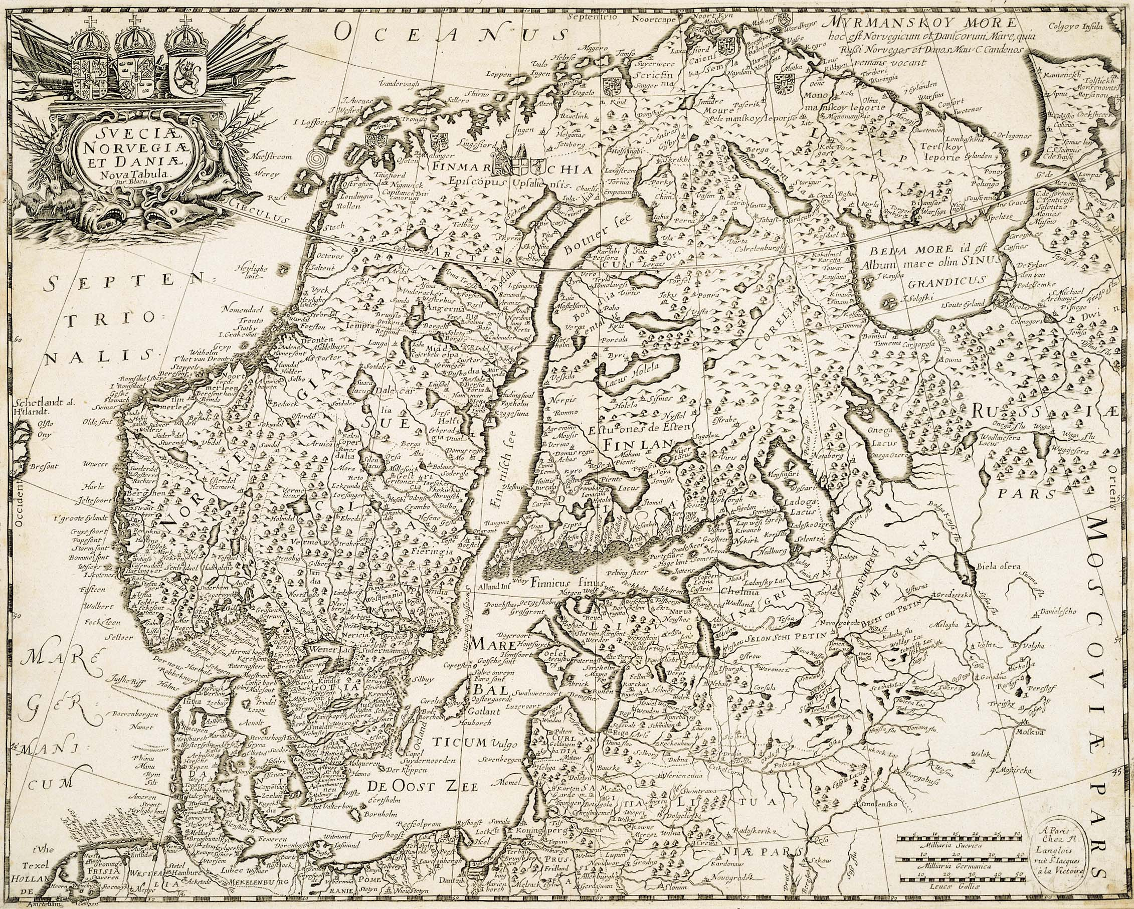 Sveciæ Norvegiæ et Daniæ Nova Tabula Par Blaeu; Map 17th century; Impressum says: A Paris Chez N Langlois rue S. Iaques a la Victoire. Although it says: Par Blaeu it is in fact also a (rather sloppy) copy of the Jansson map (which was originally a Hondius map), probably a pirate edition